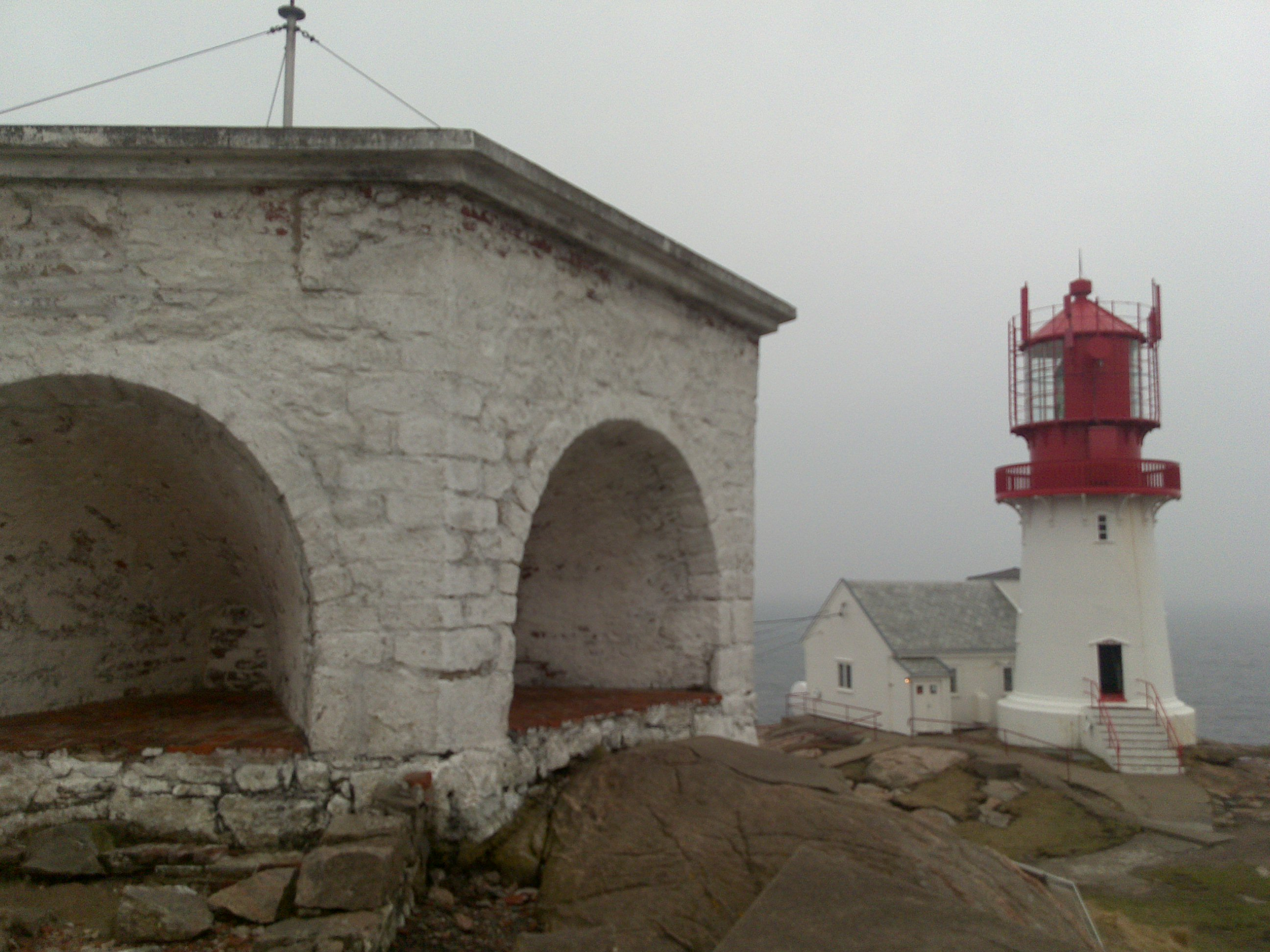 Lindesnes lighthouse, Norway